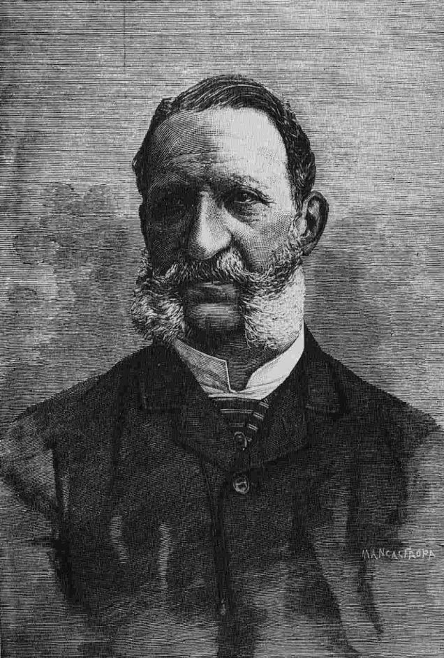 Tito Ricordi (1811-1888), lithography by Mancastropa